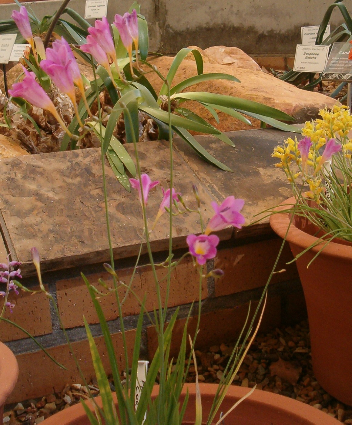 At Kirstenbosch National Botanical Gardens Genus Freesia